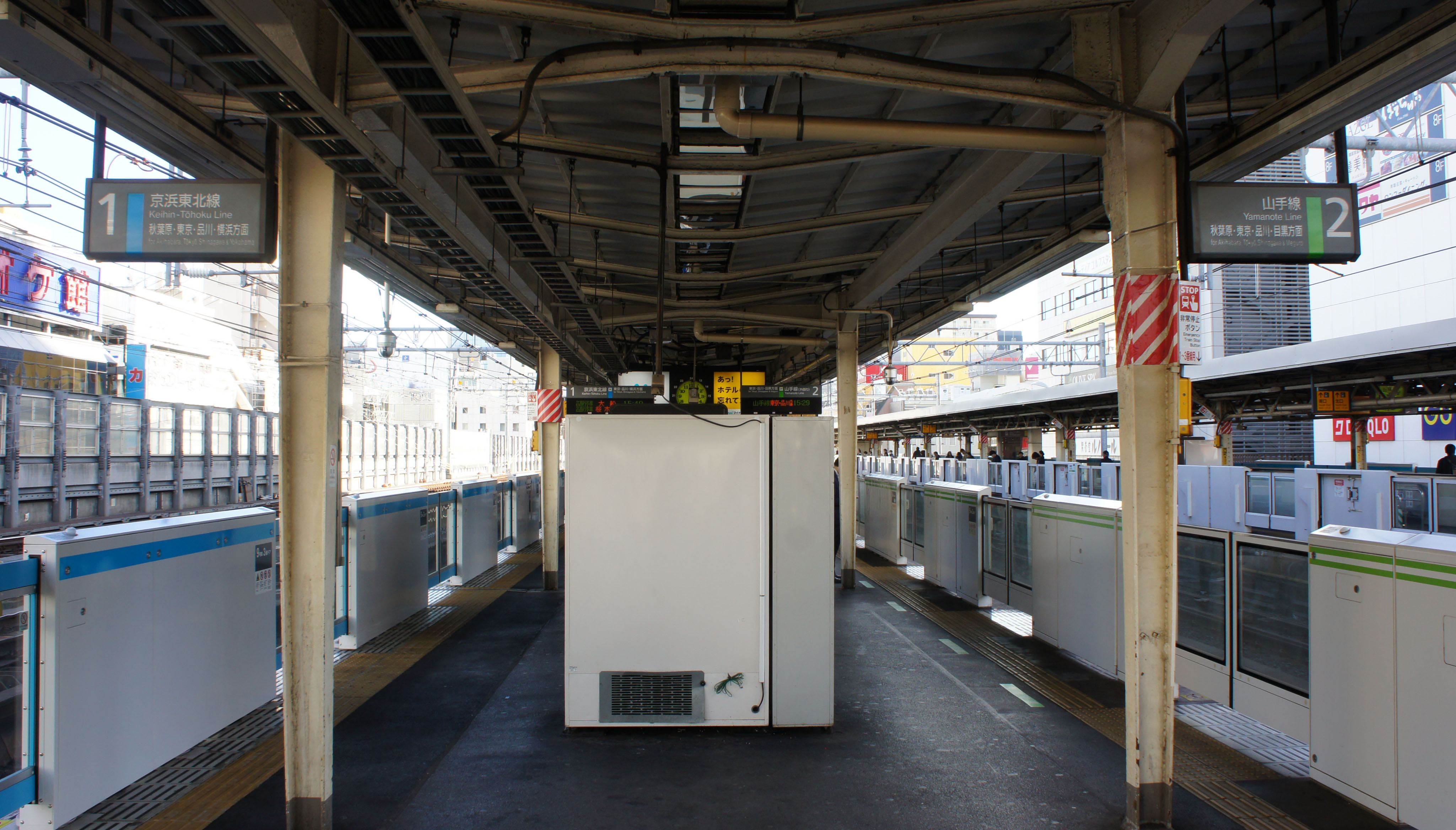 Platform 1・2 of JR Okachimachi Station Sony NEX-3 + E 18-55mm F3.5-5.6 OSS